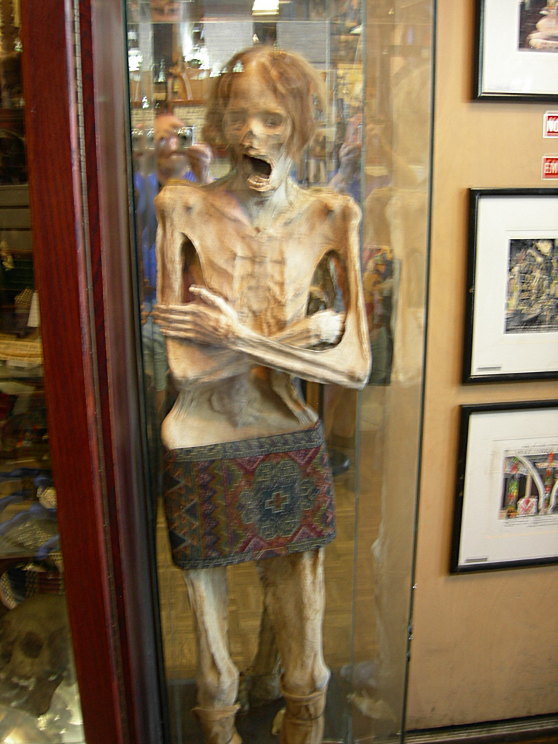 "Sylvia" the mummy, Ye Olde Curiosity Shop, Seattle, Washington.